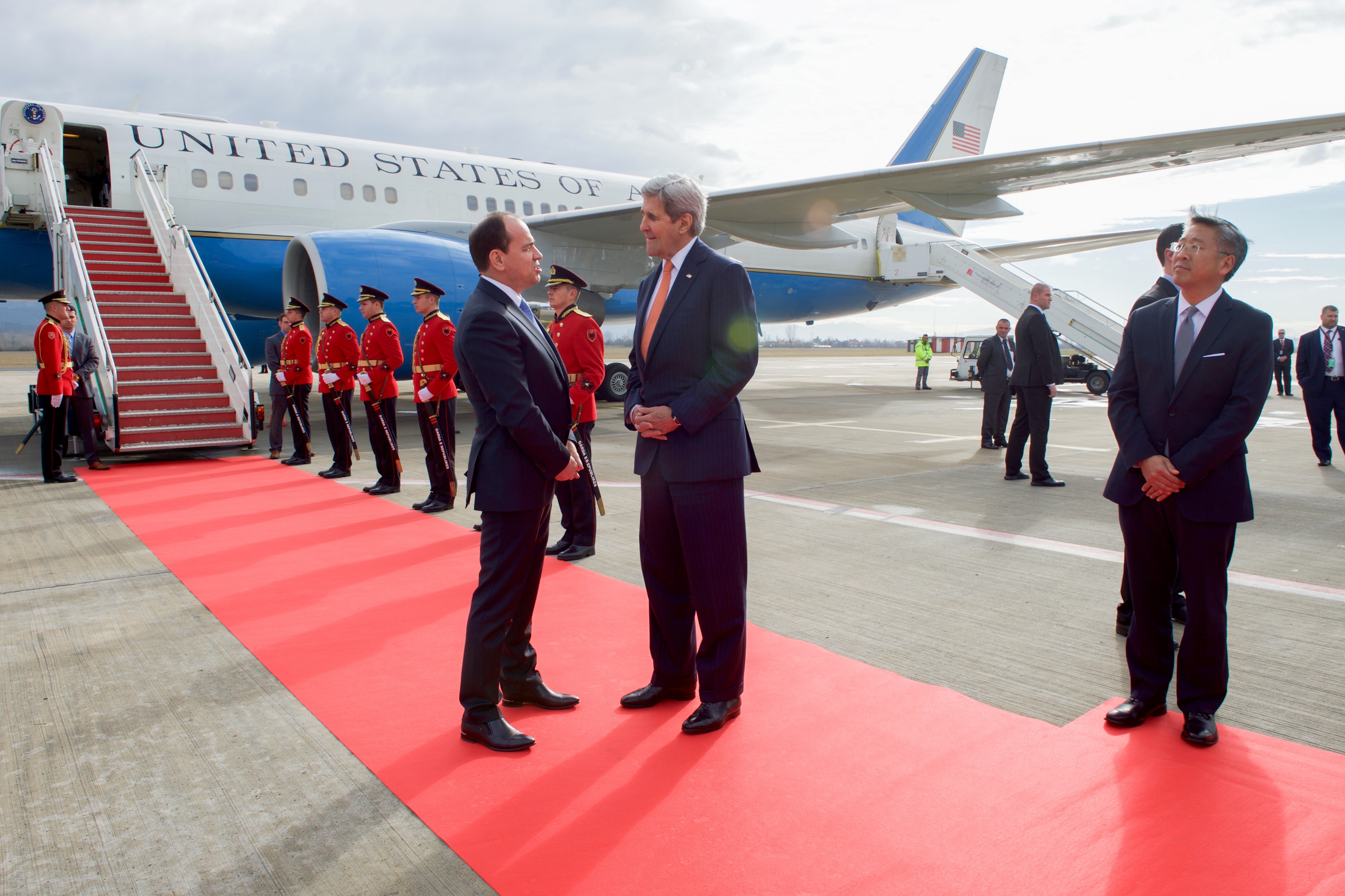 U.S. Secretary of State John Kerry, flanked by U.S. Ambassador to Albania Donald Lu, chats with Albanian President Bujar Nishani after arriving at Tirana International Airport in Tirana, Albania, on February 14, 2016, for a bilateral visit and meetings with the Prime Minister and Foreign Minister.